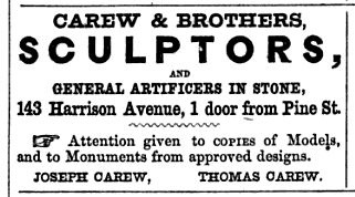 Listing for Joseph Carew, Thomas Carew, sculptors, Boston, Mass.